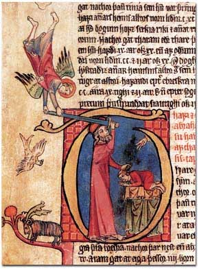 Poetic Edda miniature detail